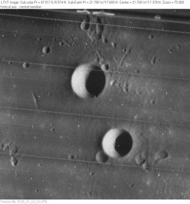 LO-IV-126H Draper is the upper of the two craters, with 8-km Draper C below it.